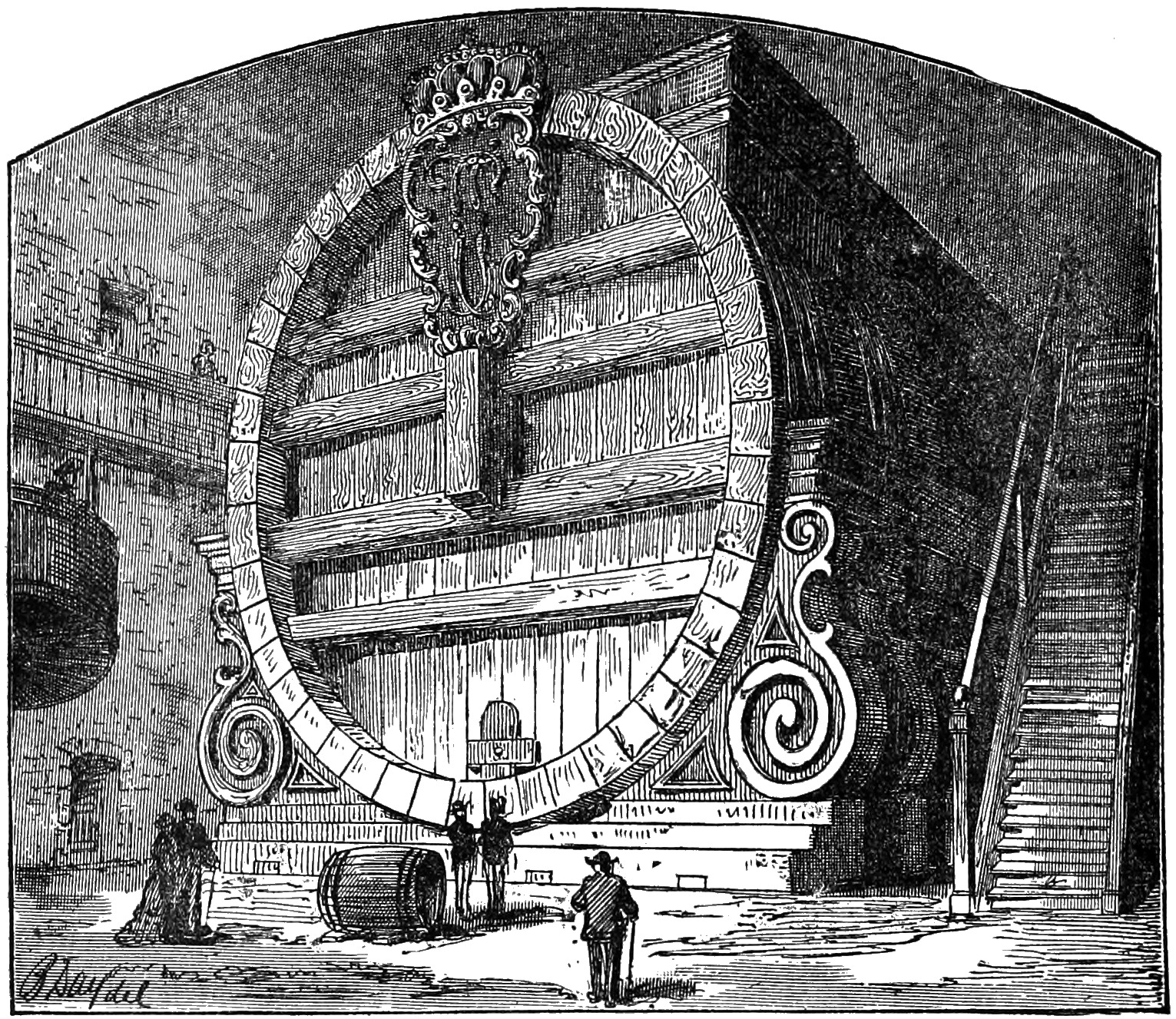 Image from a scanned copy of a book "A Tramp Abroad" (1880) by Mark Twain. Image has been cropped and the sepia tones removed.